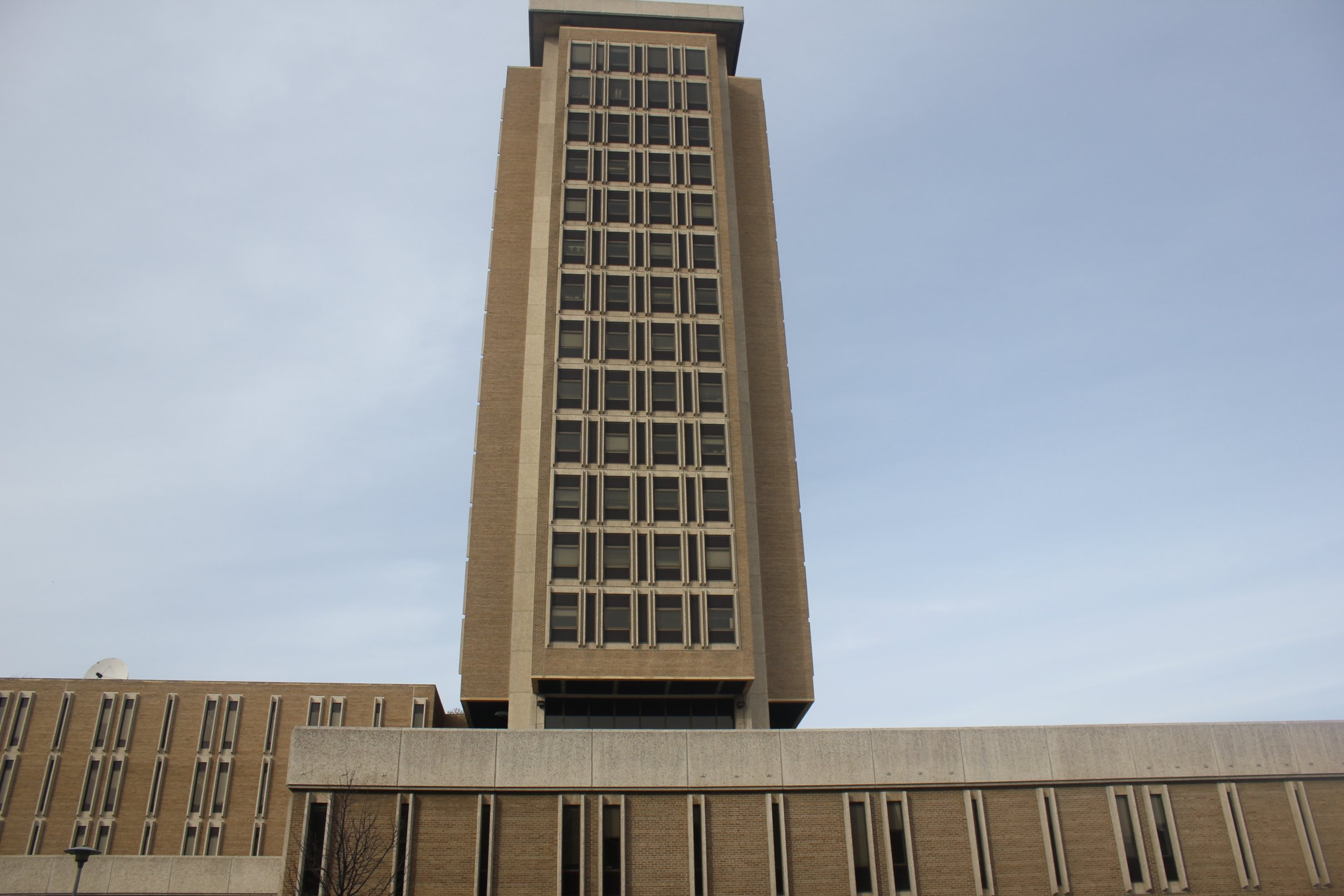 Van Hise Hall at UW Madison